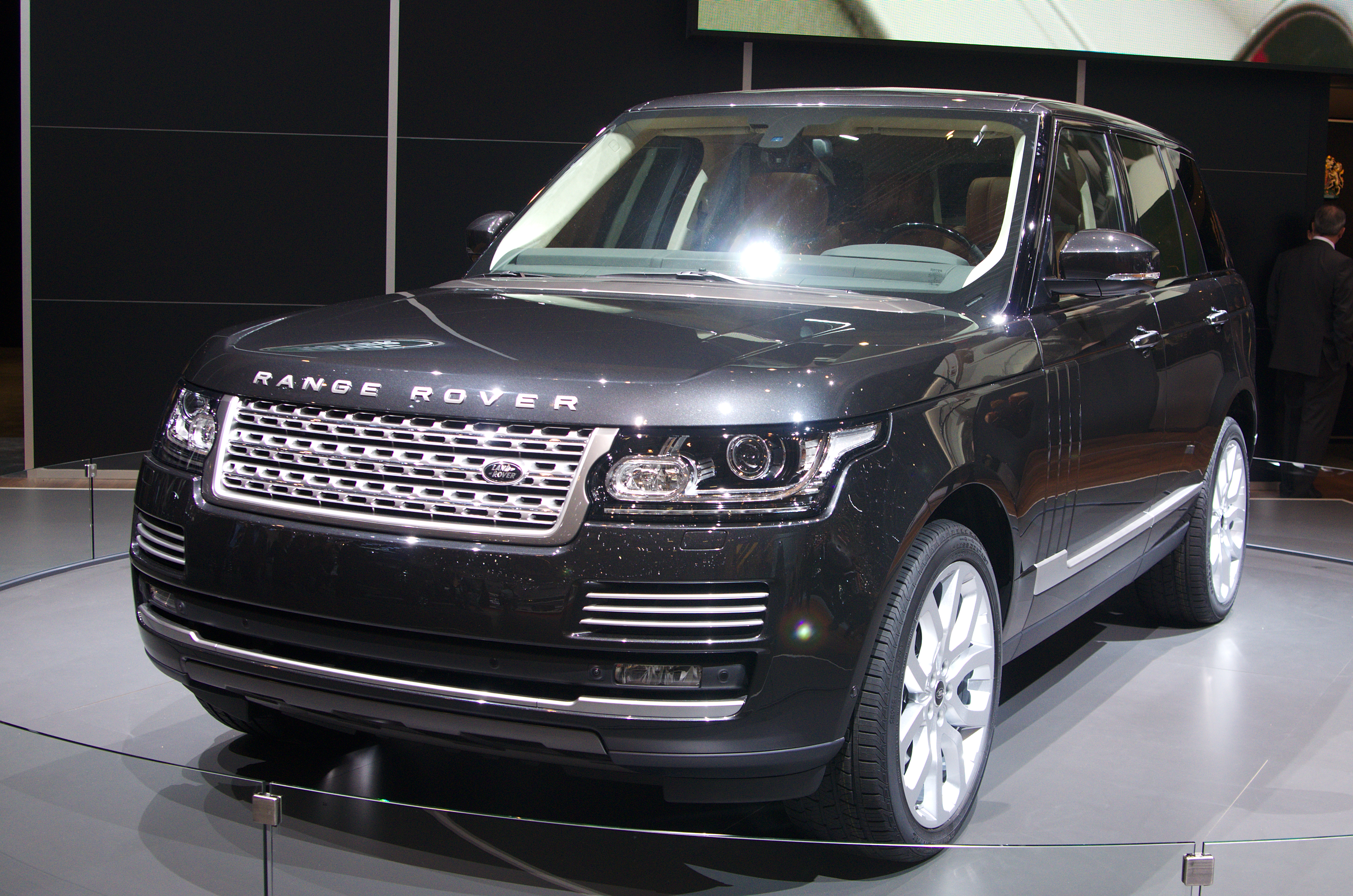 Geneva MotorShow 2013 - Land Rover Range Rover Autobiography front